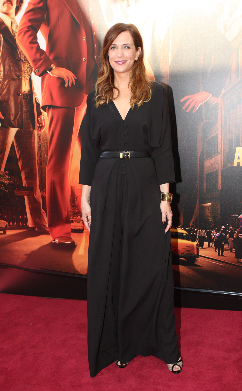 Anchorman 2 The Australian Premiere The Legend Continues